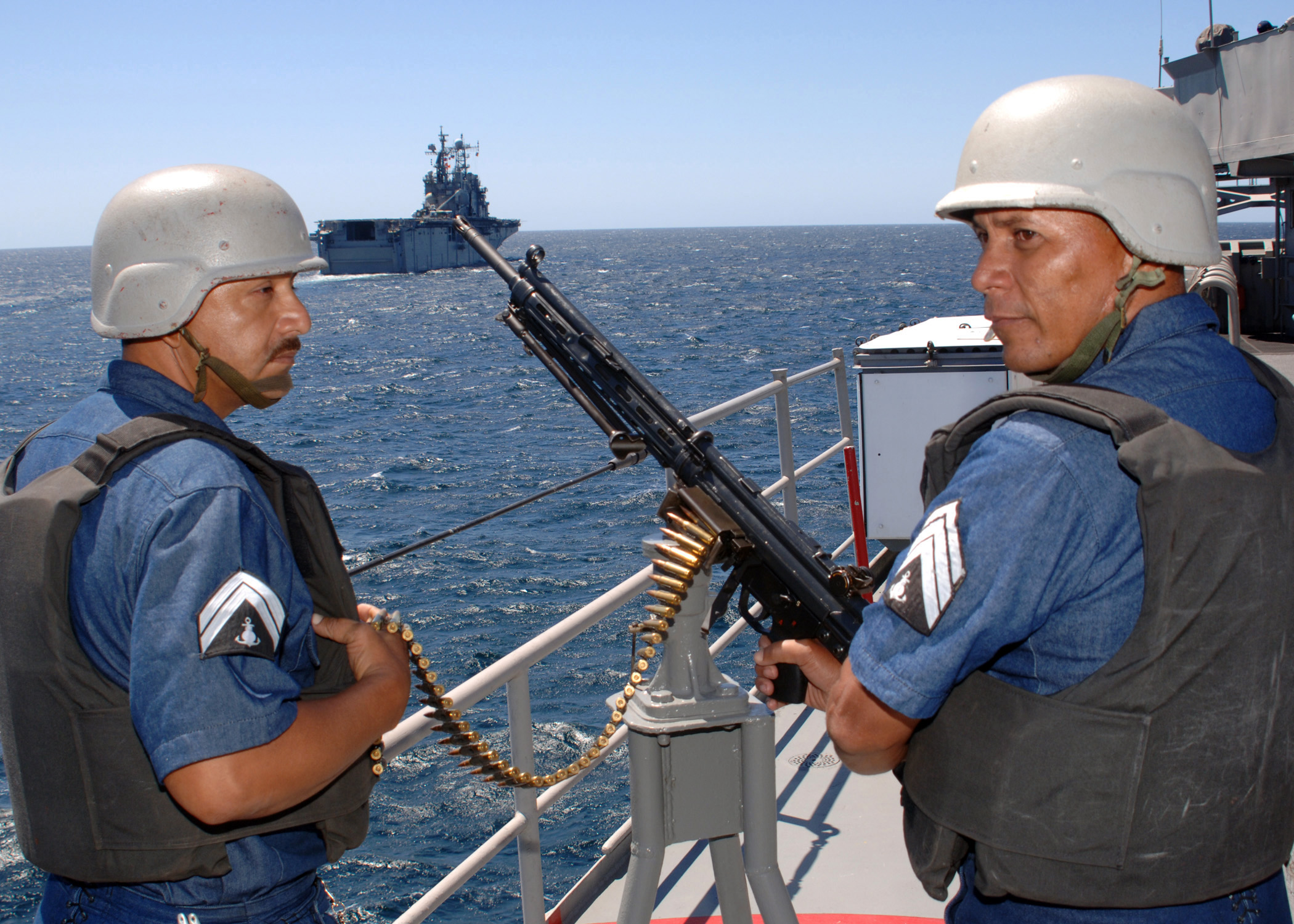 PACIFIC OCEAN (March 26, 2007) - Mexican navy gunners prepare to fire their weapon as amphibious assault ship USS Tarawa (LHA 1) pulls ahead to a safe position prior to a joint gunnery exercise. Tarawa, along with ARM Usumacinta (A 412), conducted passing exercise (PASSEX) while training together off the coast of Mazatlan. U.S. Navy photo by Chief Mass Communication Specialist Gabe Puello (RELEASED)